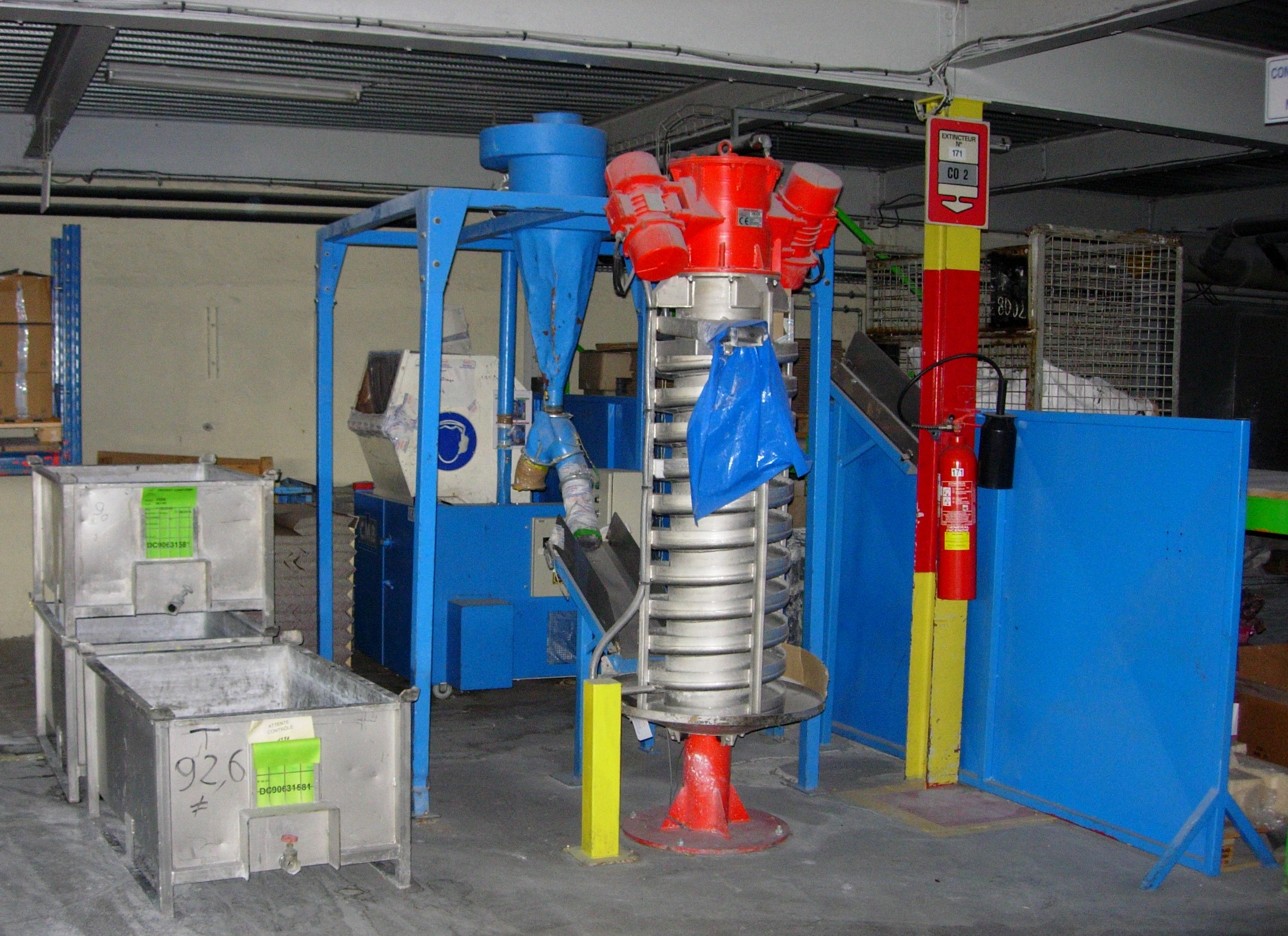 Vertical spiral conveyor and plastic shredder in plastic industry.